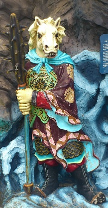 Statue of the Horse-Faced Hell Guard at Haw Par Villa, Singapore